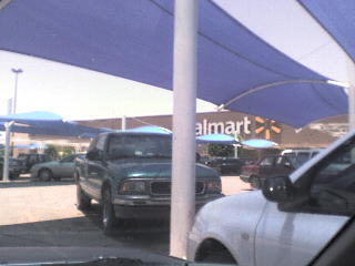 A Walmart store in Torreon with new logo.